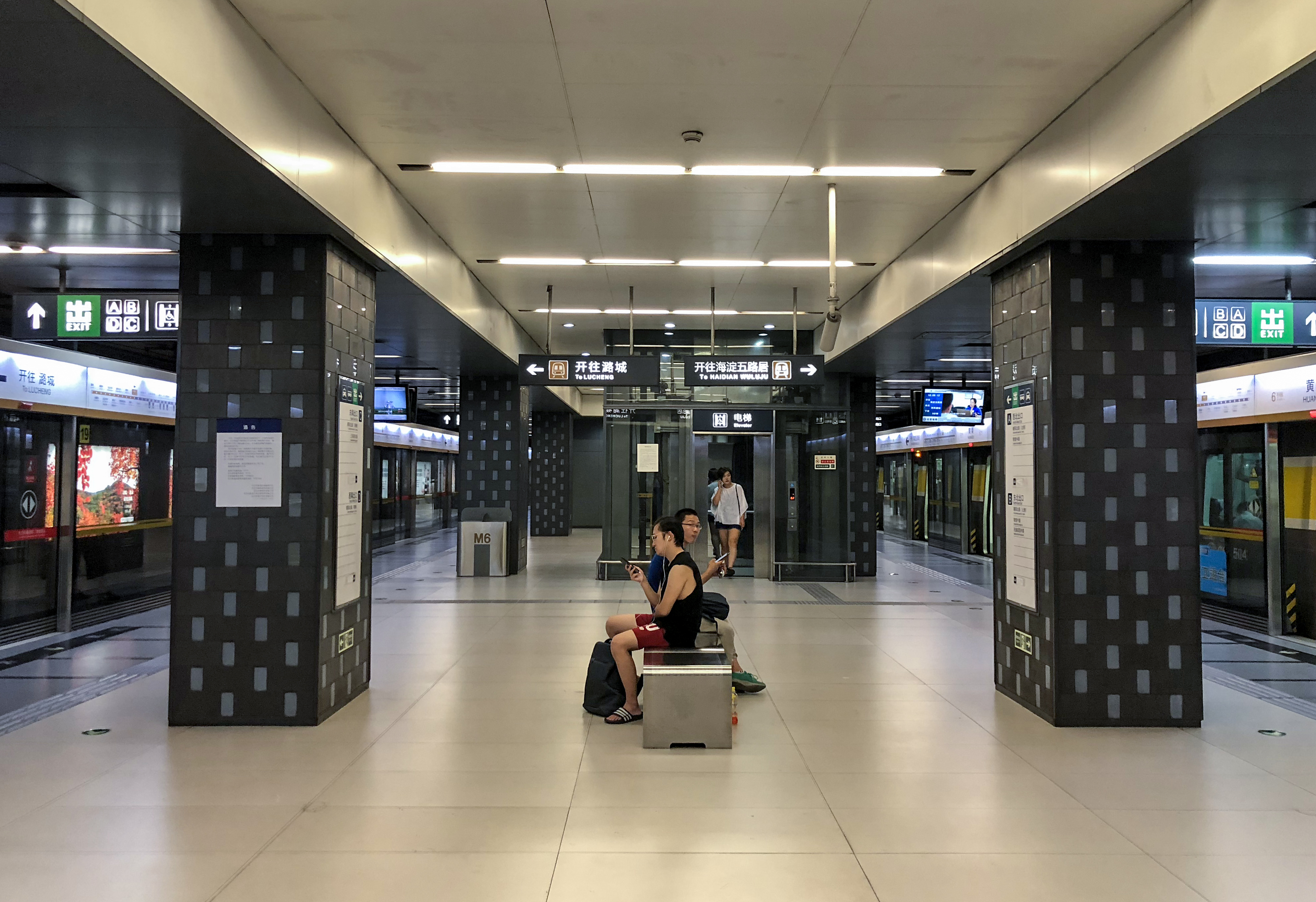 Keep discovering, one by one...